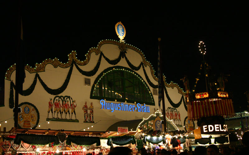 tent of the Augustiner-Bräu brewerie at Oktoberfest 2004